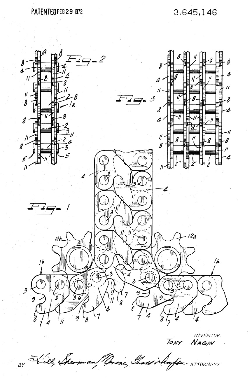 Patent Drawing for Interlocking Rigid Chain Actuator, U.S. Patent 3,645,146 (1972).